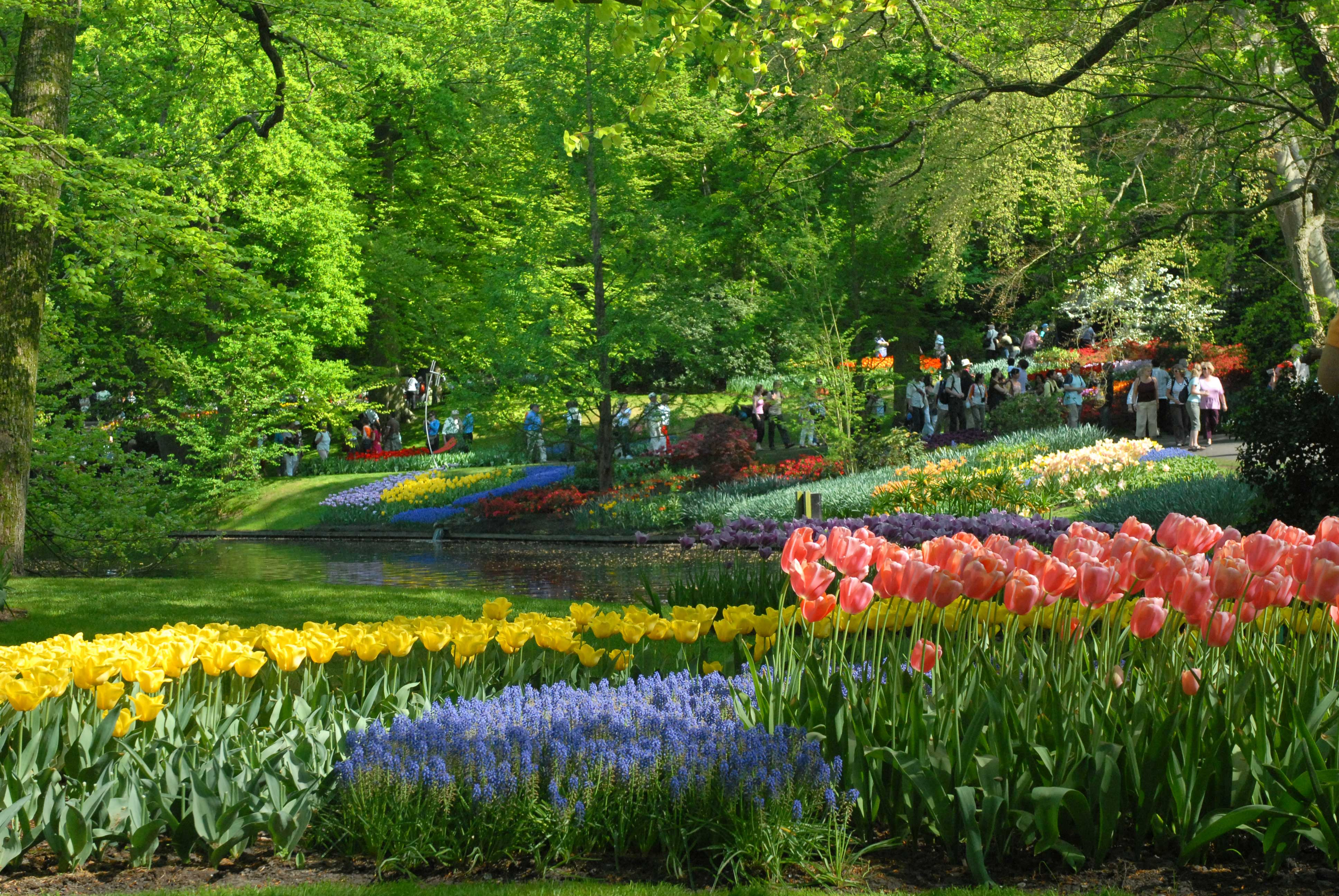 Keukenhof Gardens near Lisse, Netherlands. Photo by Chuck Szmurlo taken April 28 2007 with a Nikon D200 and a Nikon 28-70 f2.8 lens.